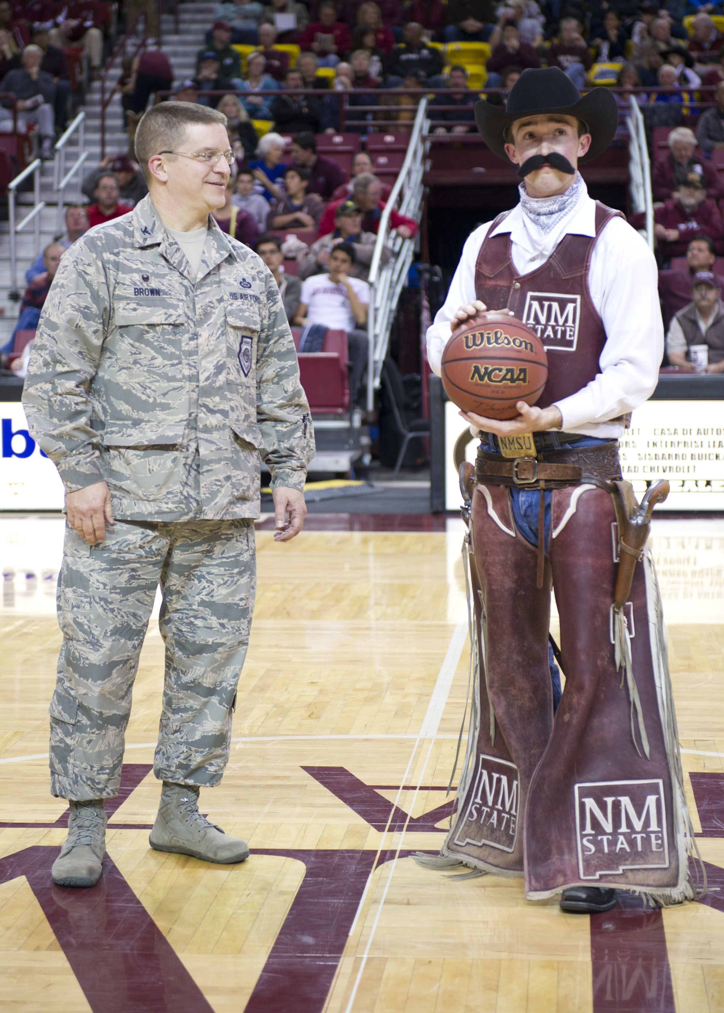 Col. Robert G. Brown made a special guest appearance for Military Appreciation Night at the New Mexico State University men’s basketball game Jan. 31, 2015, at the Pan American Center in Las Cruces, N.M. NMSU presented Brown a signed basketball with all the Aggies men’s basketball team members. This presentation was to honor those that serve our country. (U.S. Air Force Staff Sgt. E’Lysia A. Wray/Released)